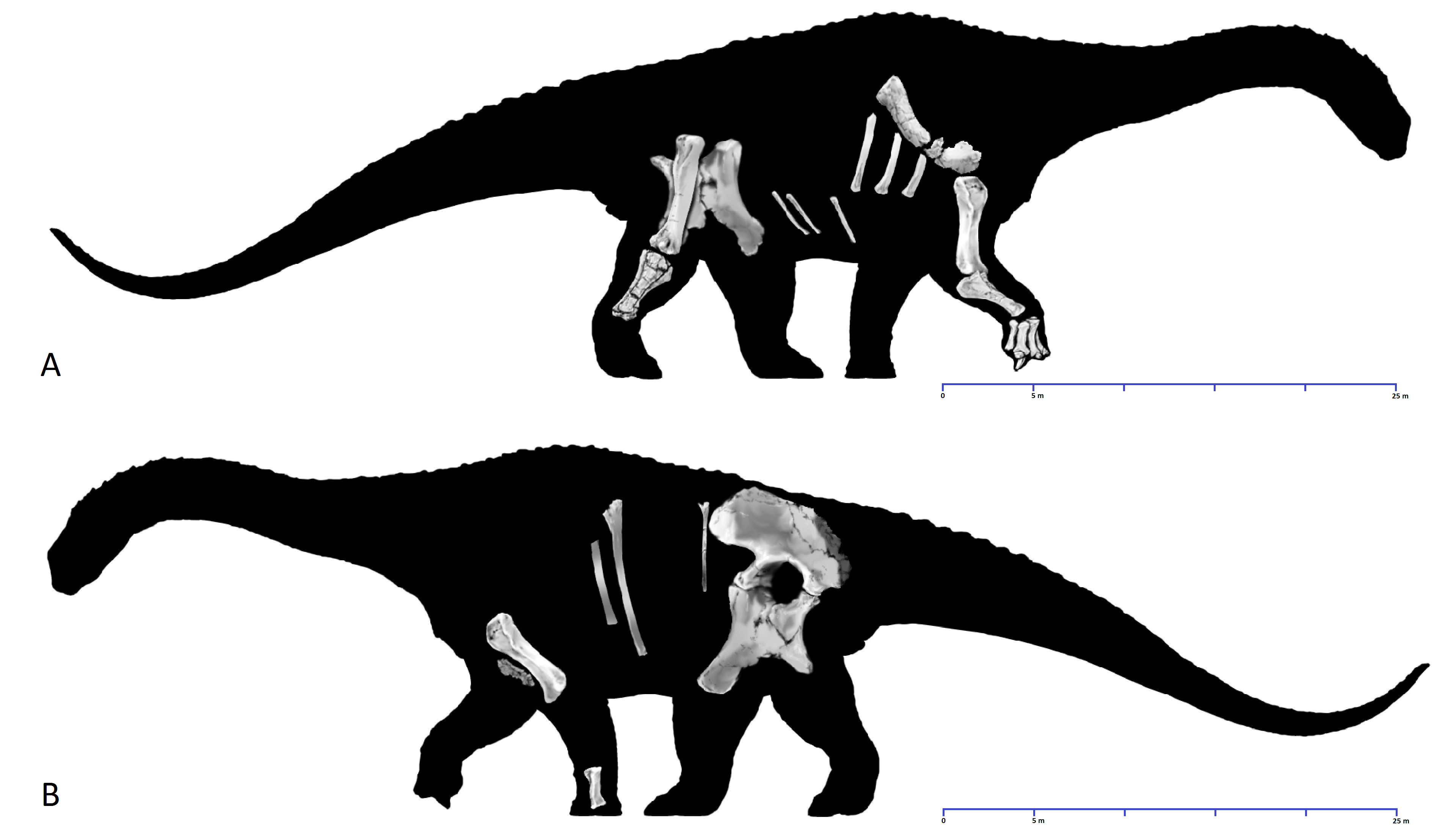 Diamantinasaurus matildae gen. et sp. nov. (AODF 603) A. Right side B. Left side (both silhouettes with sketched in bone parts of the material currently known at publishing date; scale bars: 5 x 5 = 25 m; complemented with height data here)